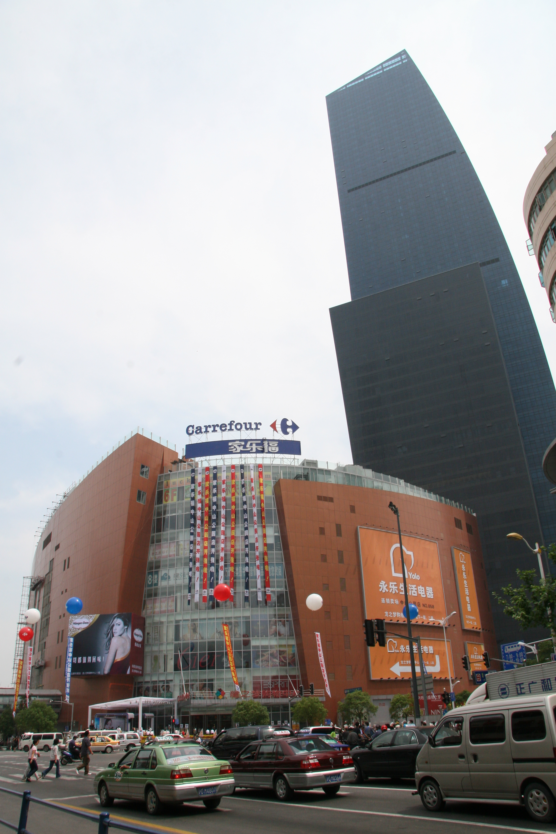 78th store of Carrefour in China - ZhongShan Park - open June 6, 2006